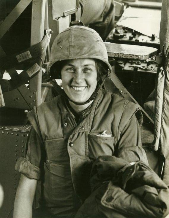 This was taken by the A.P. man on the helicopter on which we both got out of Khe Sanh (which had been heavily bombarded); March 1968. A.P. man is unknown in 2015.